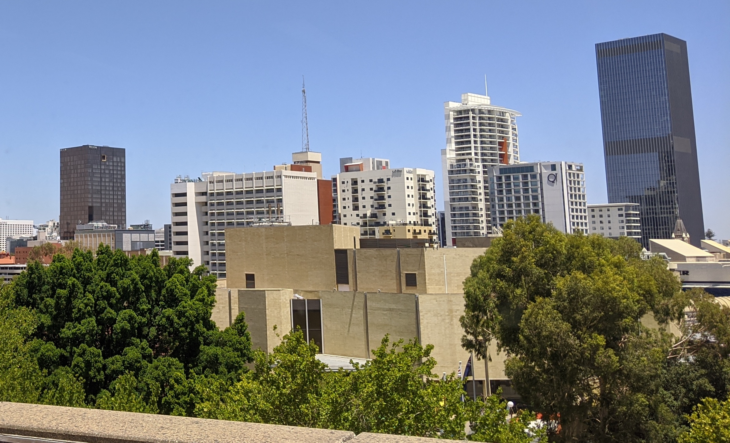 View of the Art Gallery of Western Australia from the State Library, January 2020